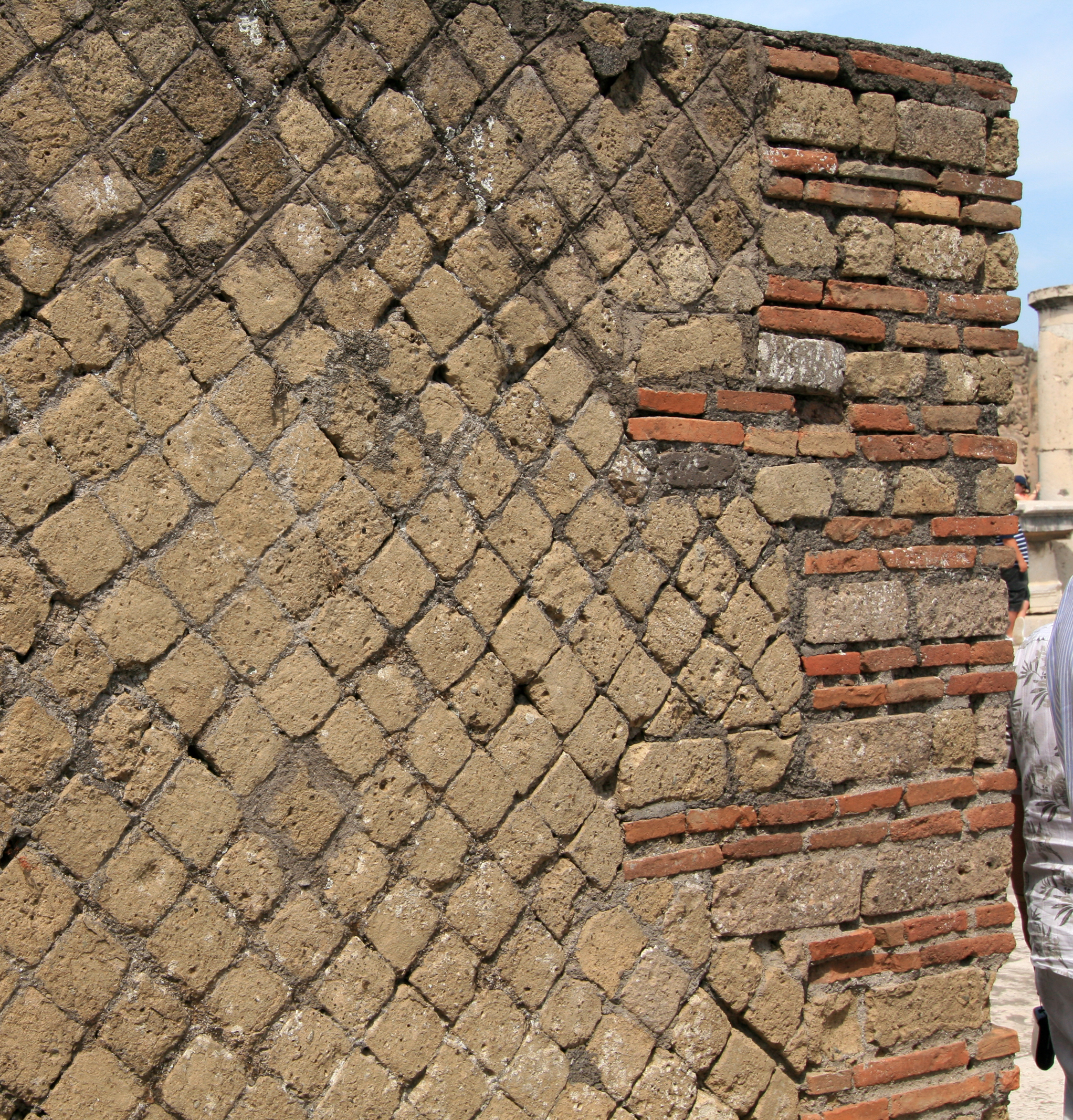 Opus reticulatum. Wall in Pompeii.